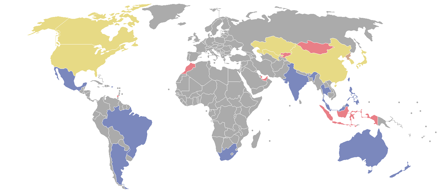 Qualified countries for Four Continents Figure Skating Championships (gold: winning countries, red: never participating countries